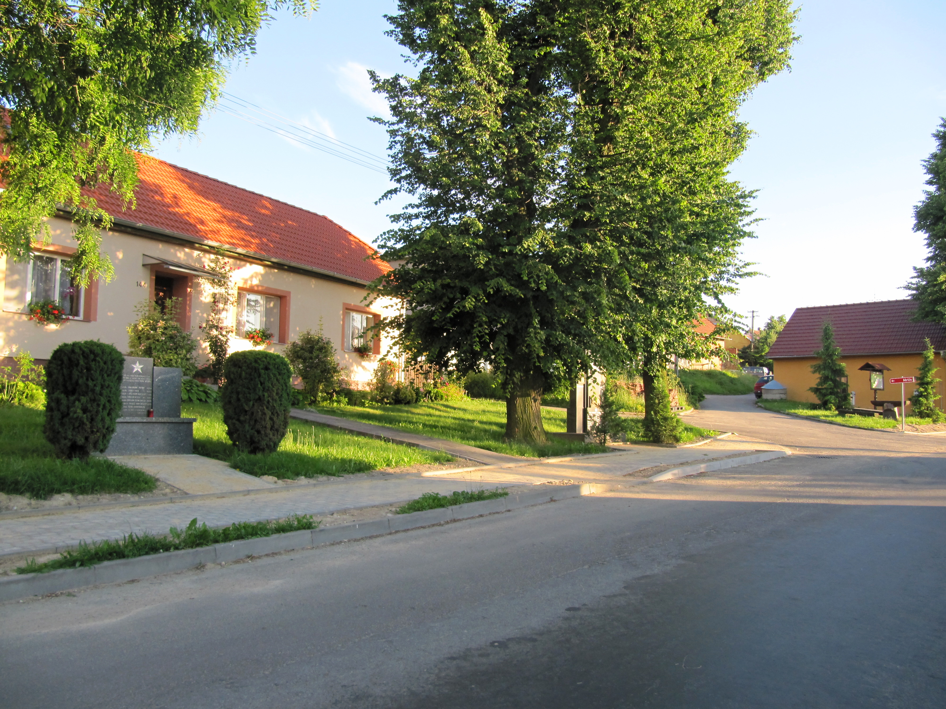 Nová Dědina in Kroměříž District, Czech Republic. Center.